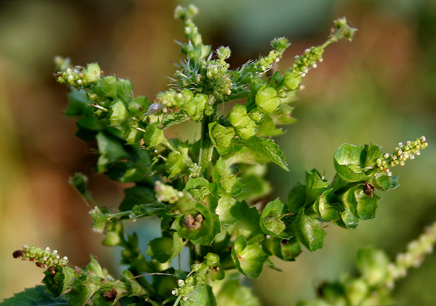 Acalypha indica L. (syn. A. bailloniana Müll.Arg.; A. canescens Wall.; A. caroliniana Blanco; A. chinensis Benth.; A. ciliata Wall.; A. cupamenii Dragend.; A. decidua Forssk.; A. fimbriata Baill.; A. indica var. bailloniana (Müll.Arg.) Hutch.; A. indica var. minima (H.Keng) S.F.Huang & T.C.Huang; A. minima H.Keng; A. somalensis Pax; A. somalium Müll.Arg.; A. spicata Forssk.; Cupamenis indica (L.) Raf.; Ricinocarpus baillonianus (Müll.Arg.) Kuntze; R. deciduus (Forssk.) Kuntze; R. indicus (L.) Kuntze)- Rudra, Indian acalypha, Kuppu, Khokali- in Hyderabad, India.